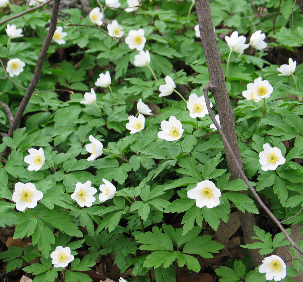 Anemone nemorosa (family Ranunculaceae) in flower, Sołtysowicki Forest, Wrocław, Poland.